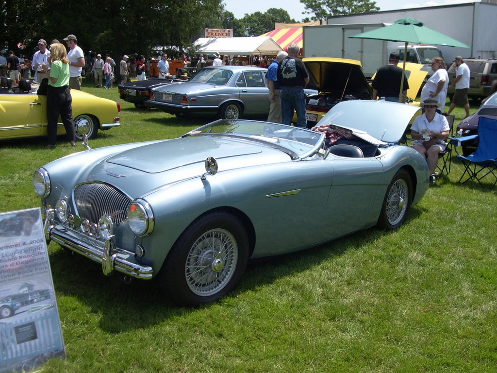 1956 Austin-Healey 100 Roadster